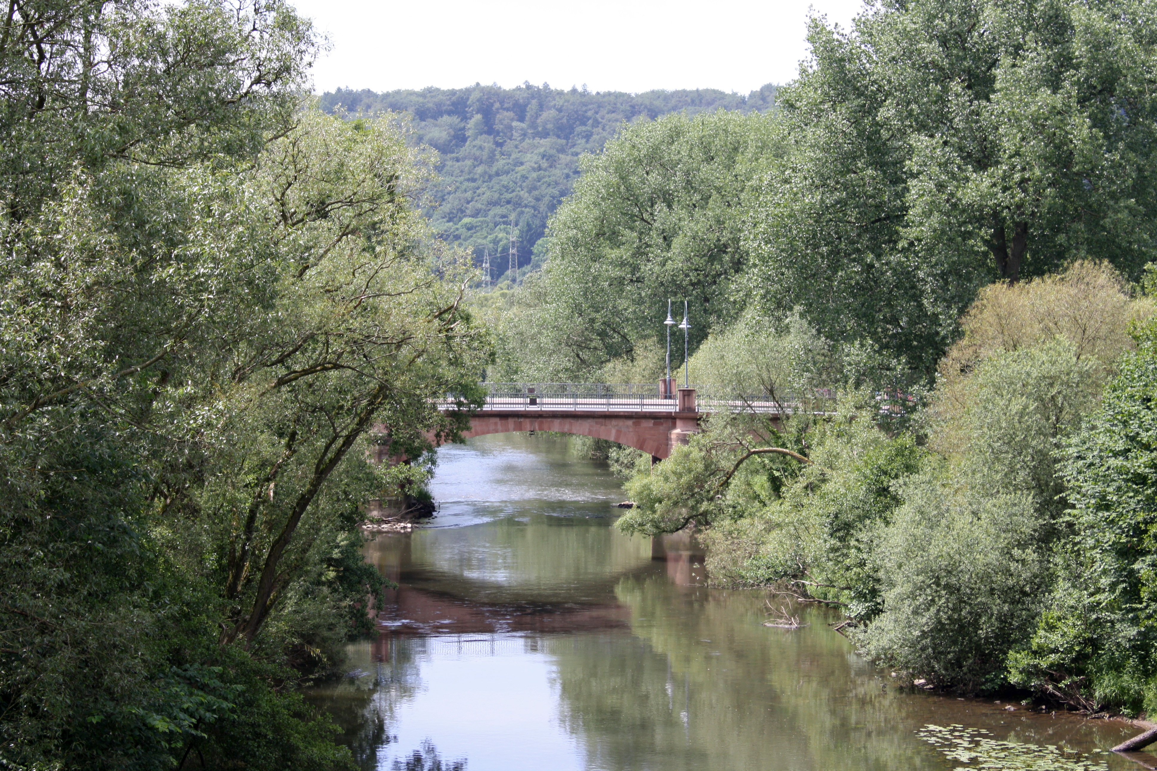 The Schützenpfuhl bridge in Marburg